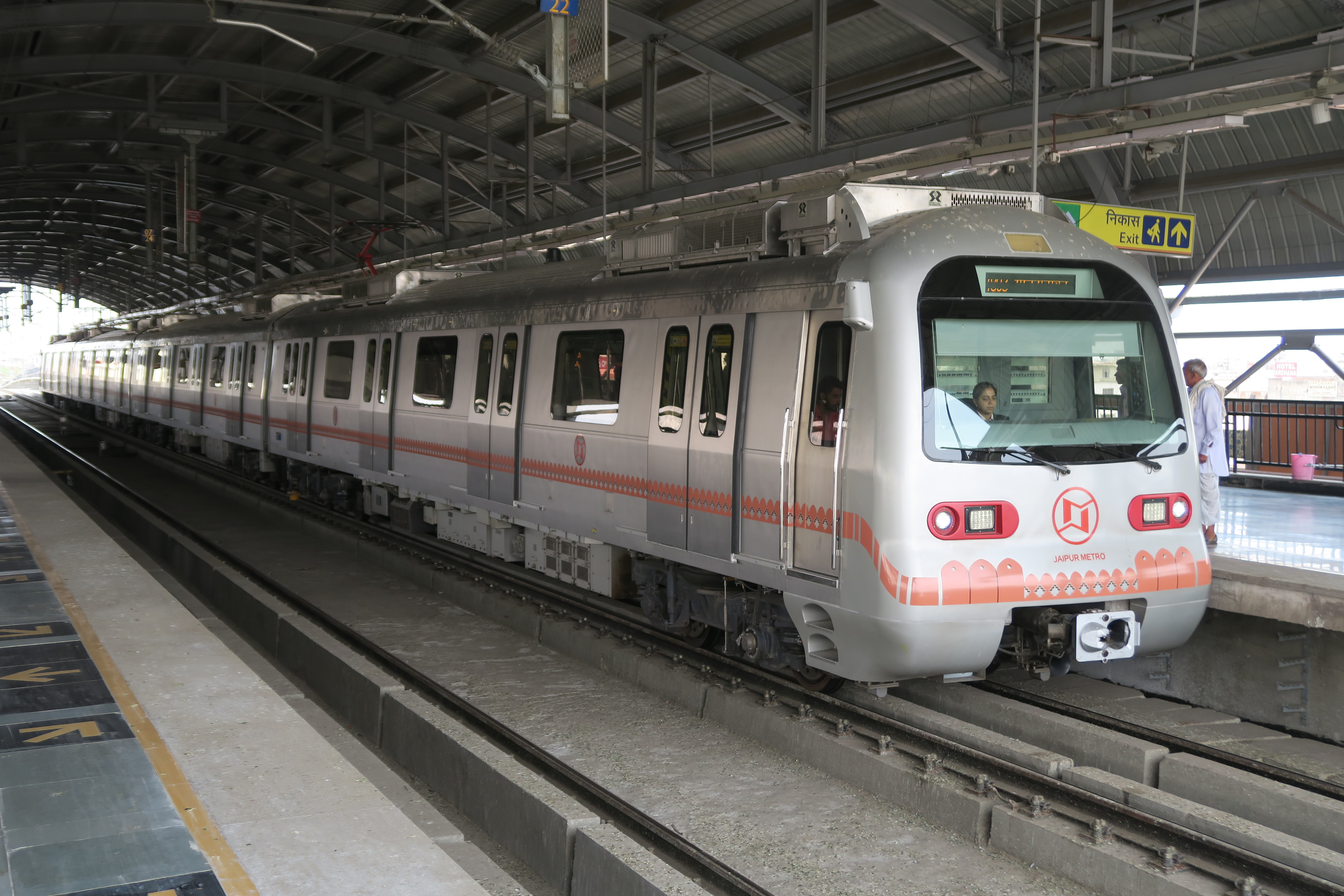 Jaipur Metro Pink line at Shindi Camp station.